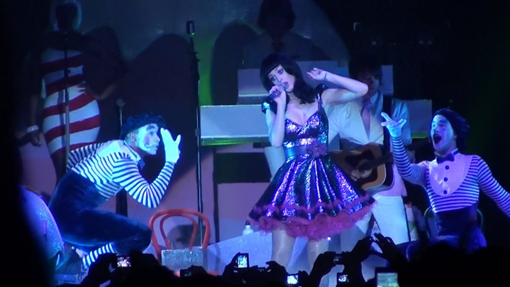 Performance by Katy Perry for the song "Ur So Gay" in her world tour California Dreams Tour.